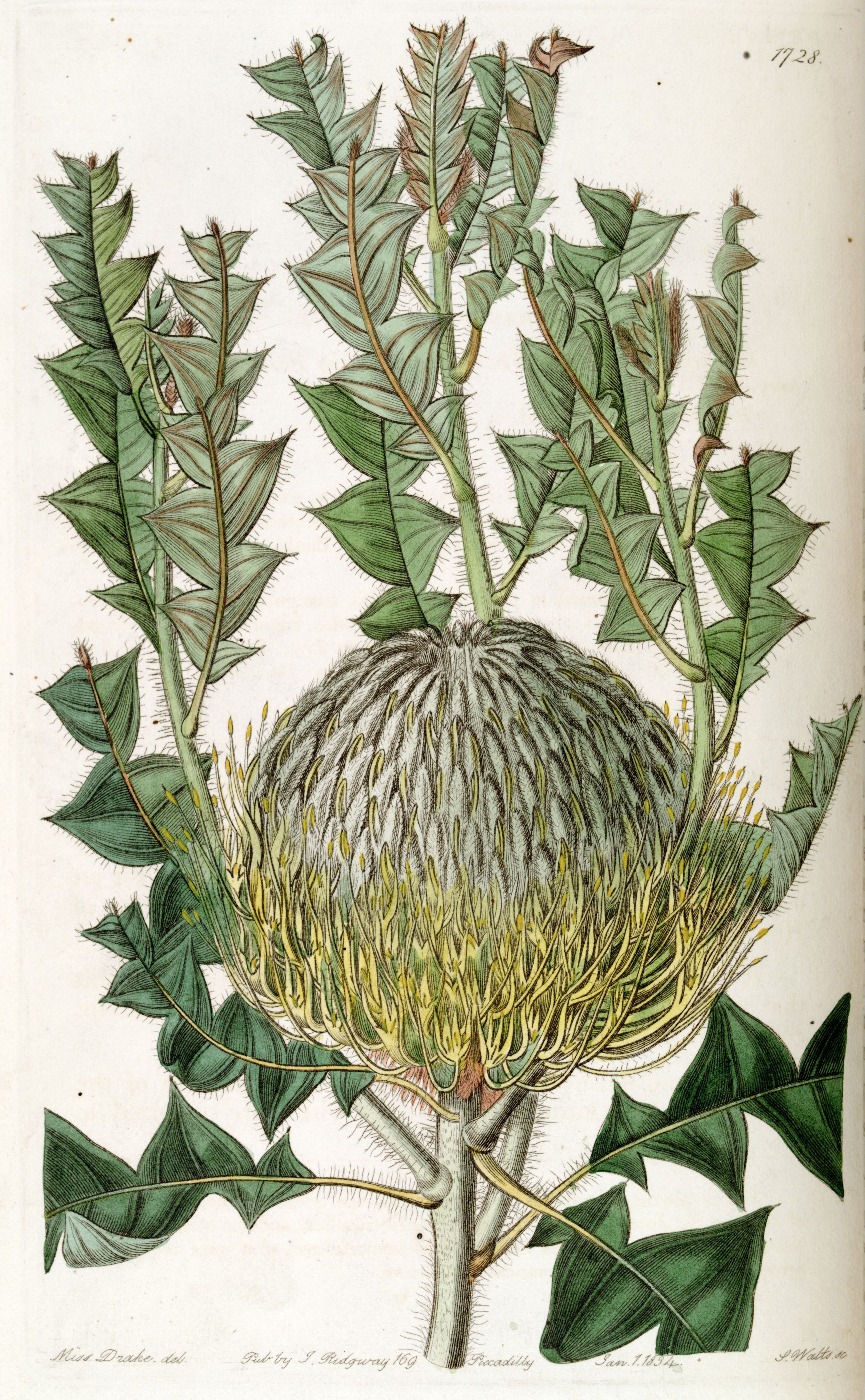 This is a scan of Edwards's Botanical Register, Volume 20, Plate 1728. The plate nominally shows Banksia speciosa, but it has since been shown that the figured plant was a then-undescribed species now known as Banksia baxteri.